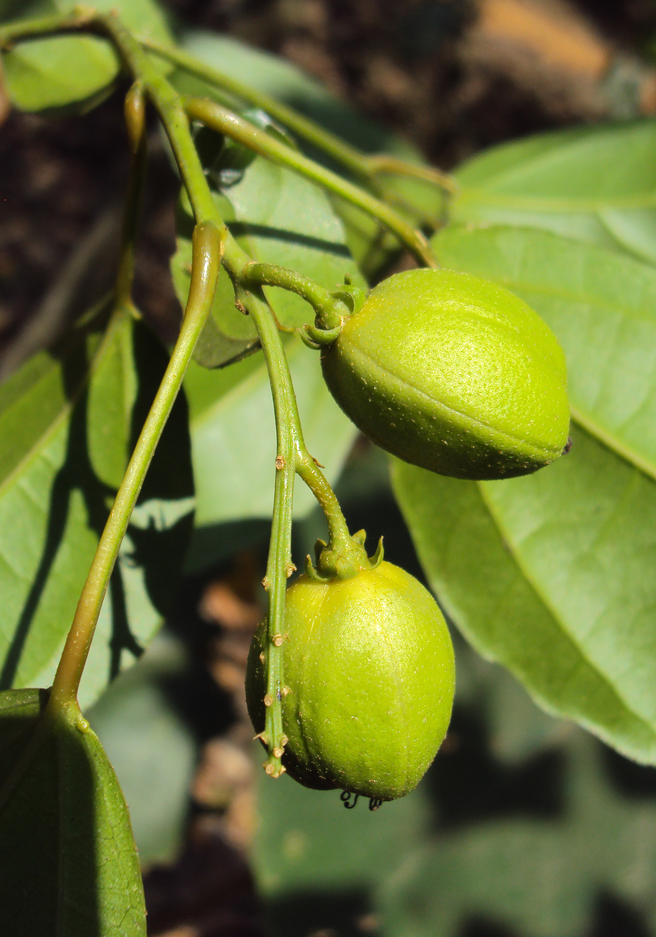 Croton tiglium